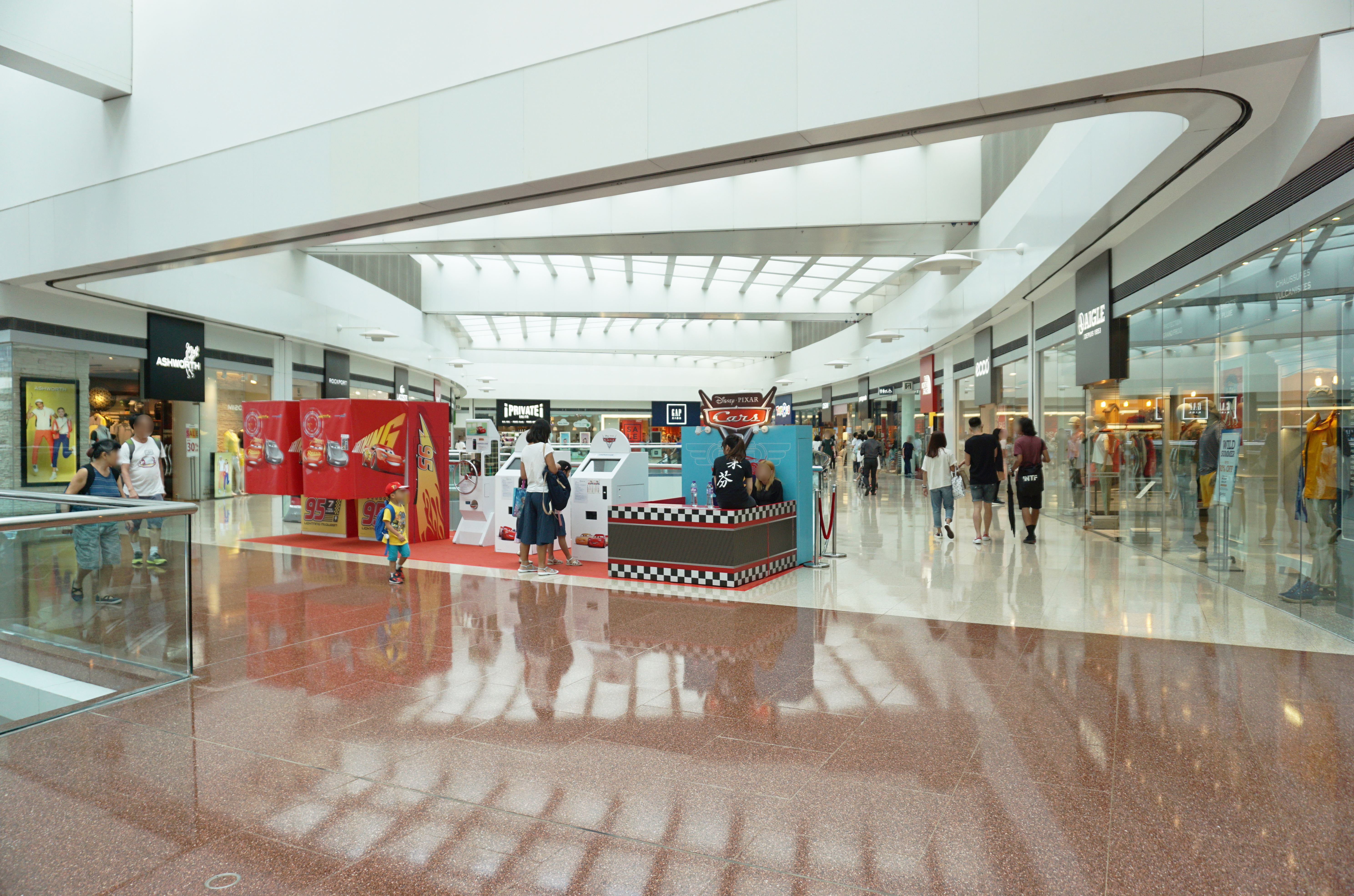 Festival Walk in Kowloon Tong, Hong Kong.